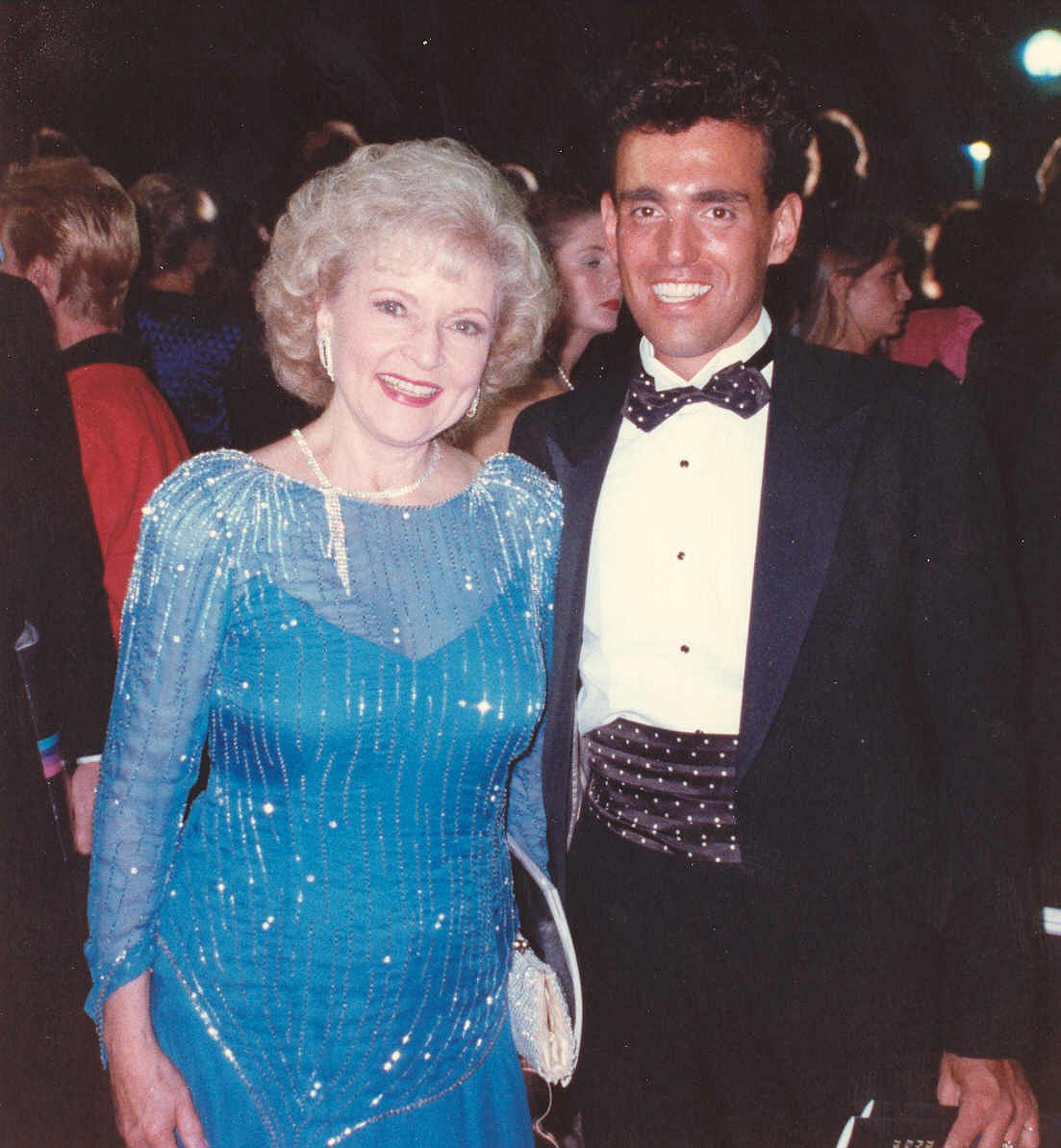 The always-friendly Betty White poses with Jim Turilli at the Governor's Ball following the 40th Annual Primetime Emmy Awards, 8/28/88